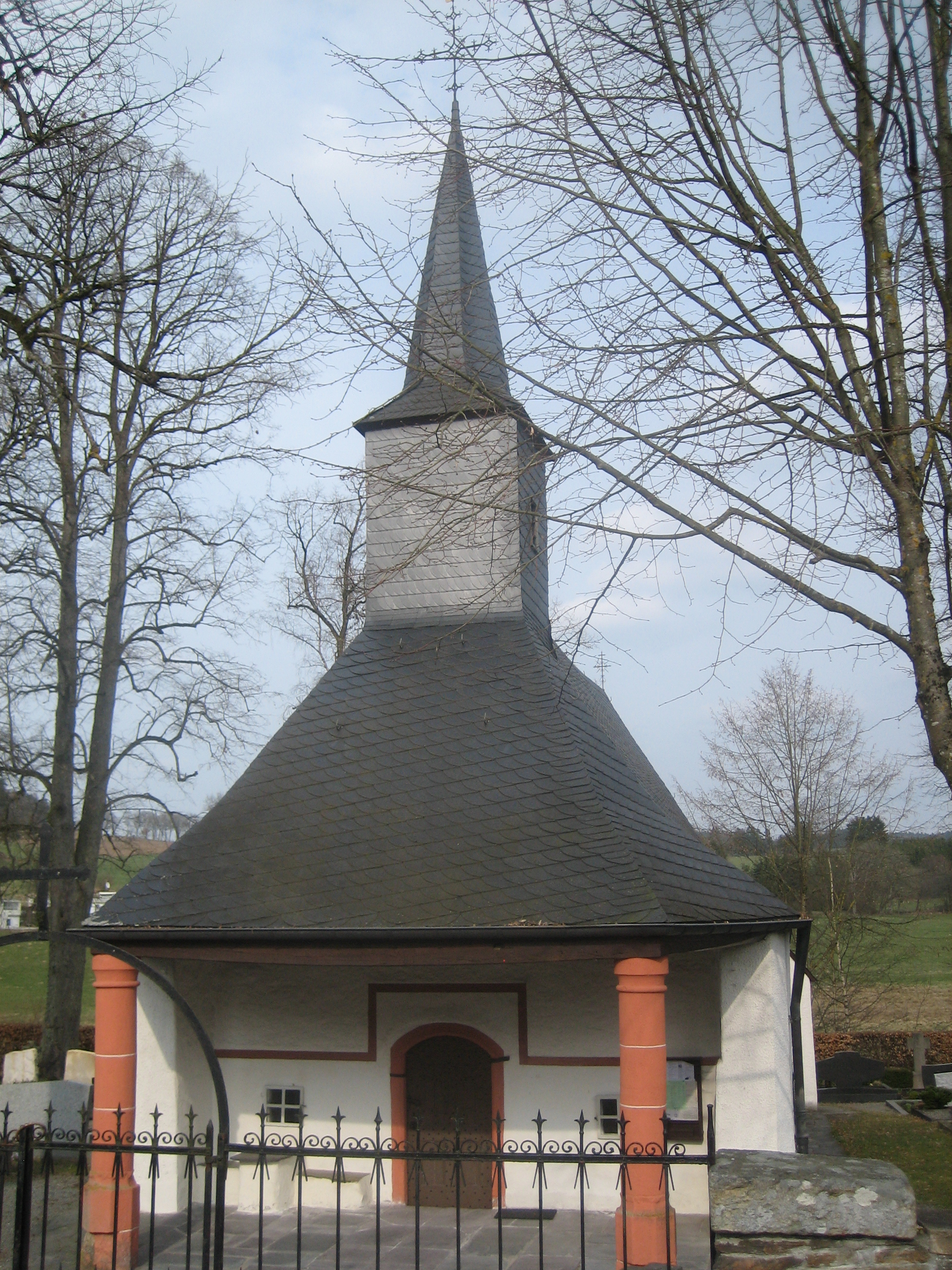 Saint Bartholomew's Chapel in Wiesenbach, Lommersweiler, Sankt Vith, Arrondissement of Verviers, Liège, Wallonia, Belgium